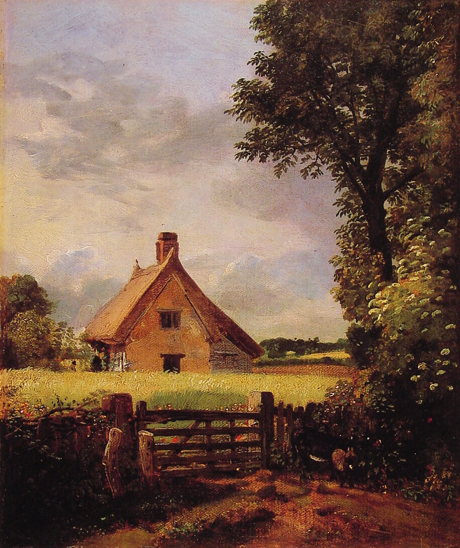 John Constable's art